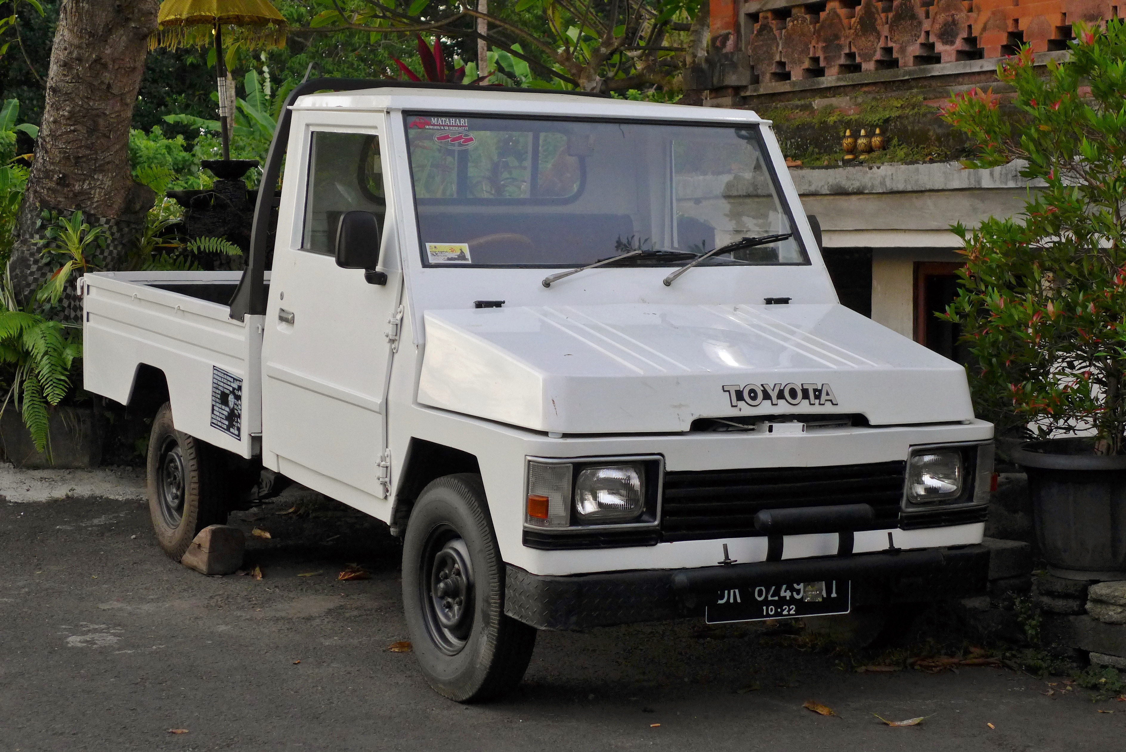 A first generation Toyota Kijang (KF10), photographed in Denpasar, Bali. The rectangular headlights appear to be aftermarket replacements - this generation of the Kijang had round headlights as standard.